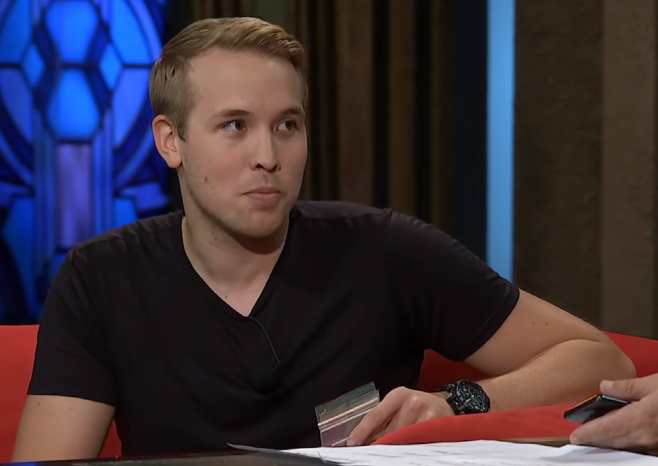 Jirka Král, Czech youtuber